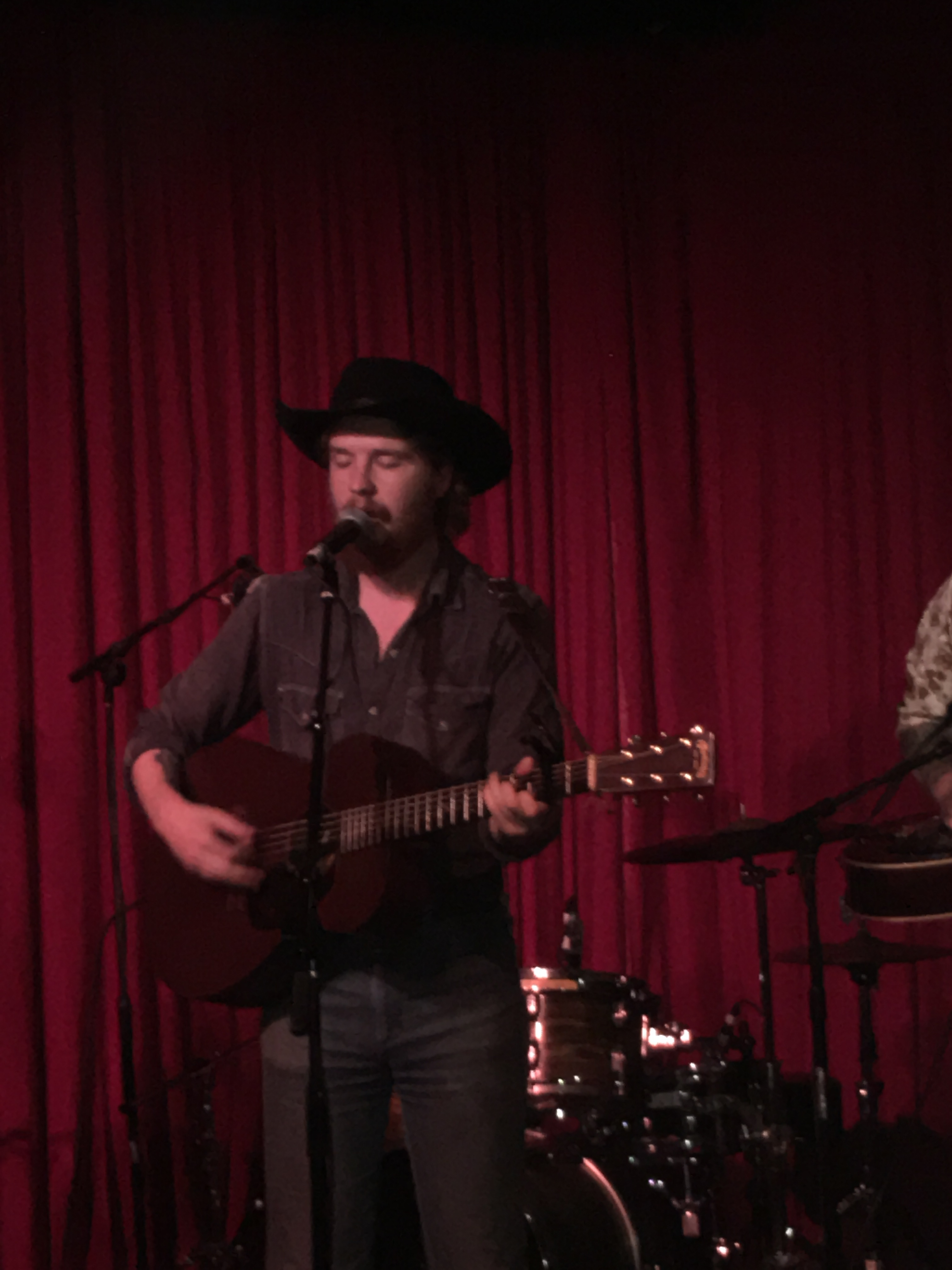 Colter Wall at the Hotel Café